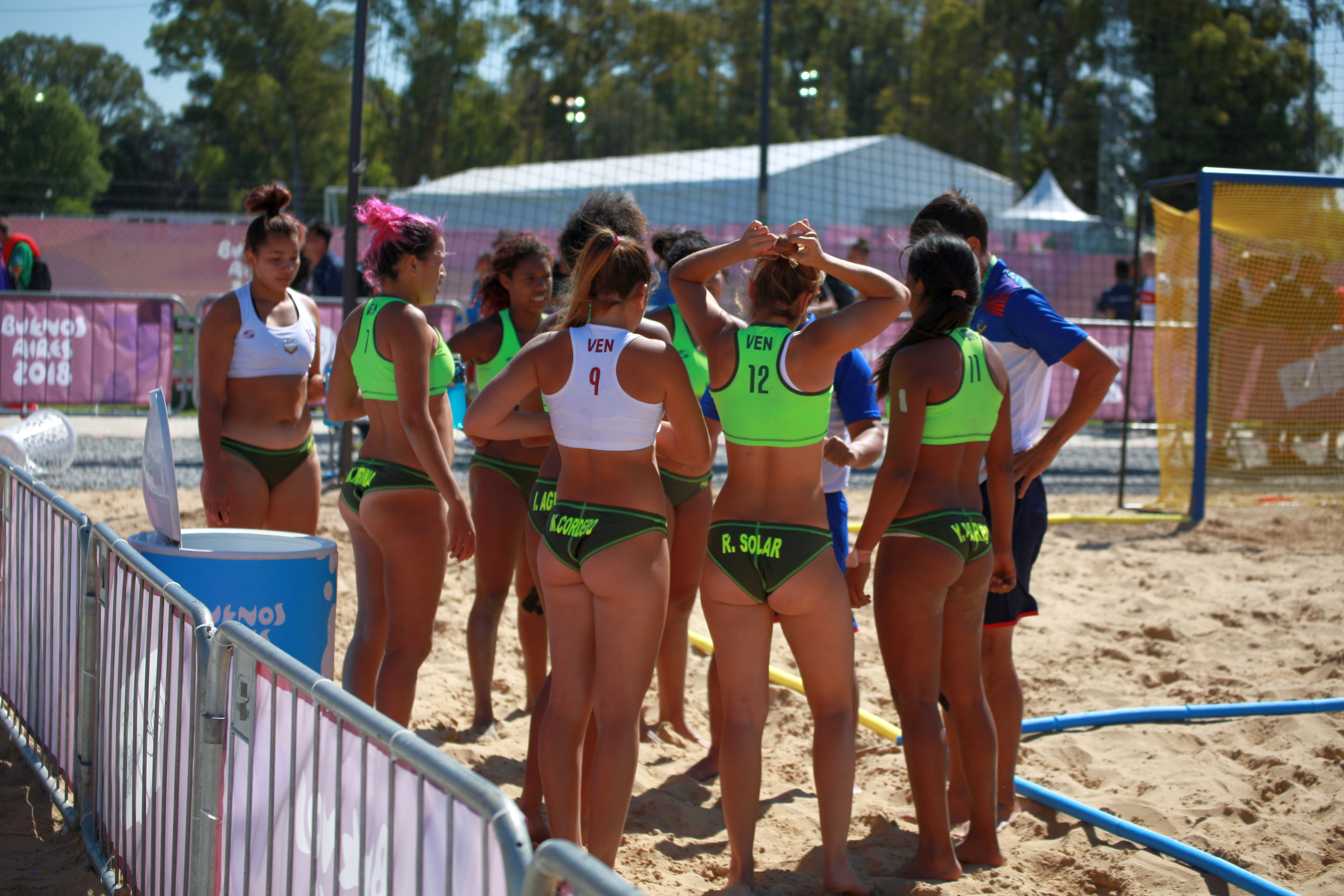 Beach handball at the 2018 Summer Youth Olympics at 10 October 2018 – Girls Preliminary Round Group A - Venezuela-Paraguay 1:2